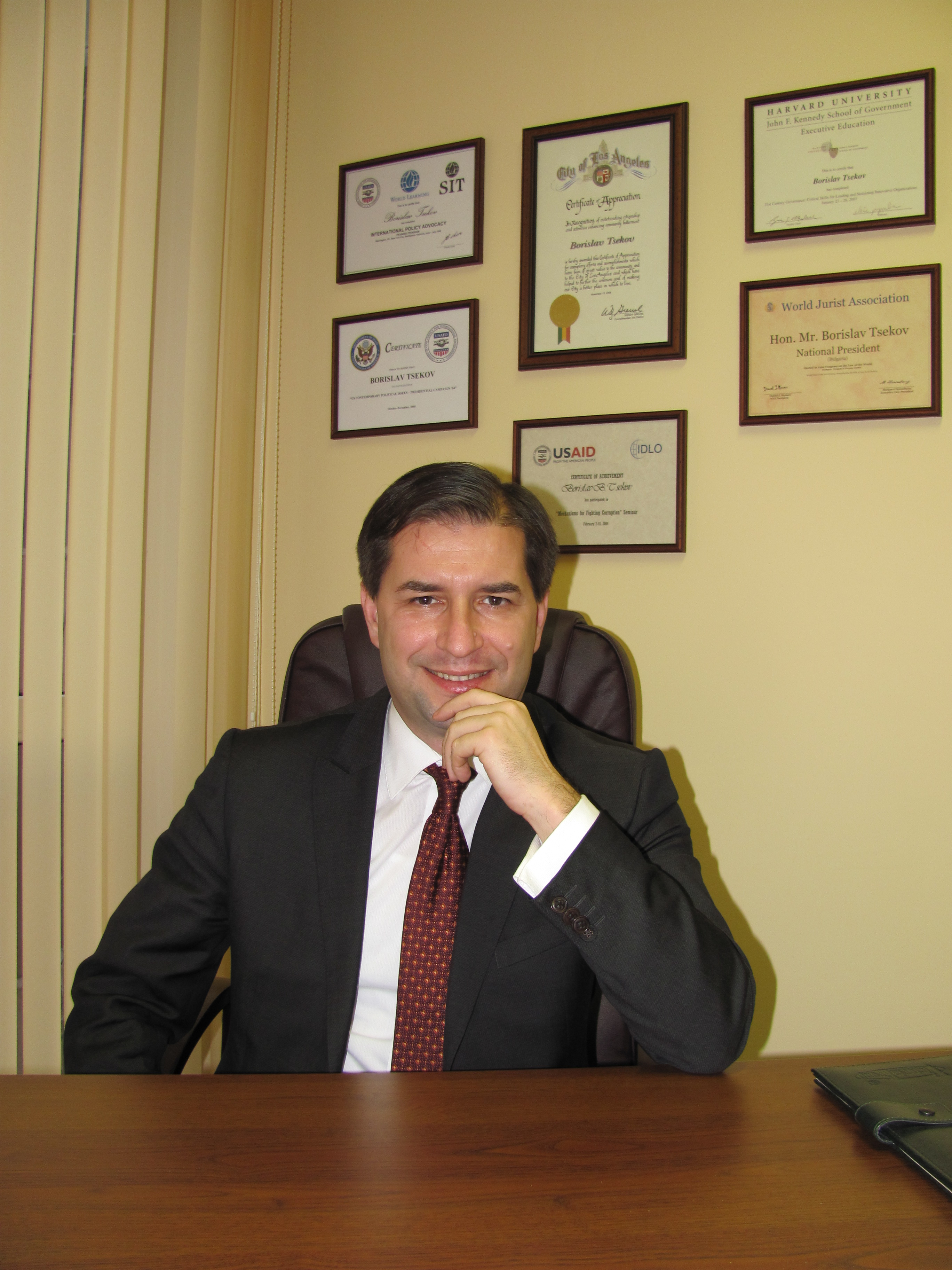 Borislav Tsekov, President of the Institute of Modern Politics